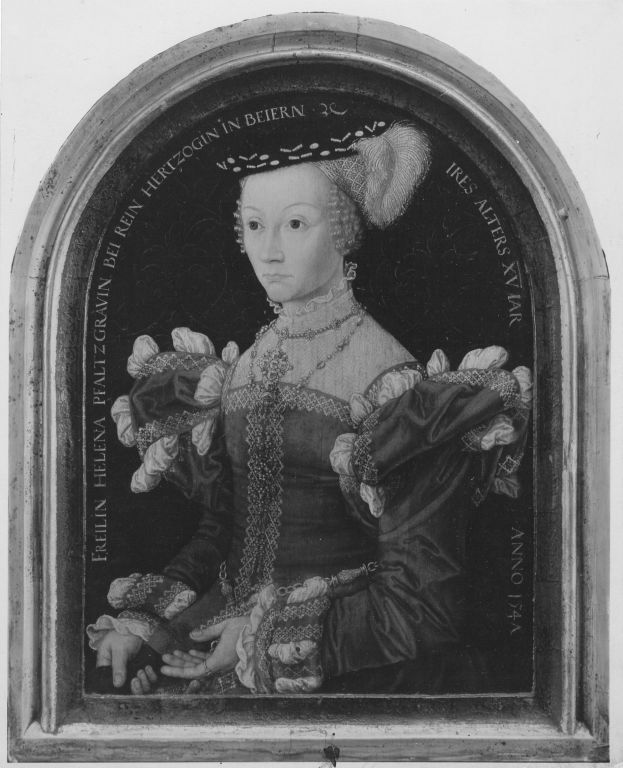 Pfalzgräfin Helene, Tochter des Pfalzgrafen Johann II. von Simmern-Sponheim